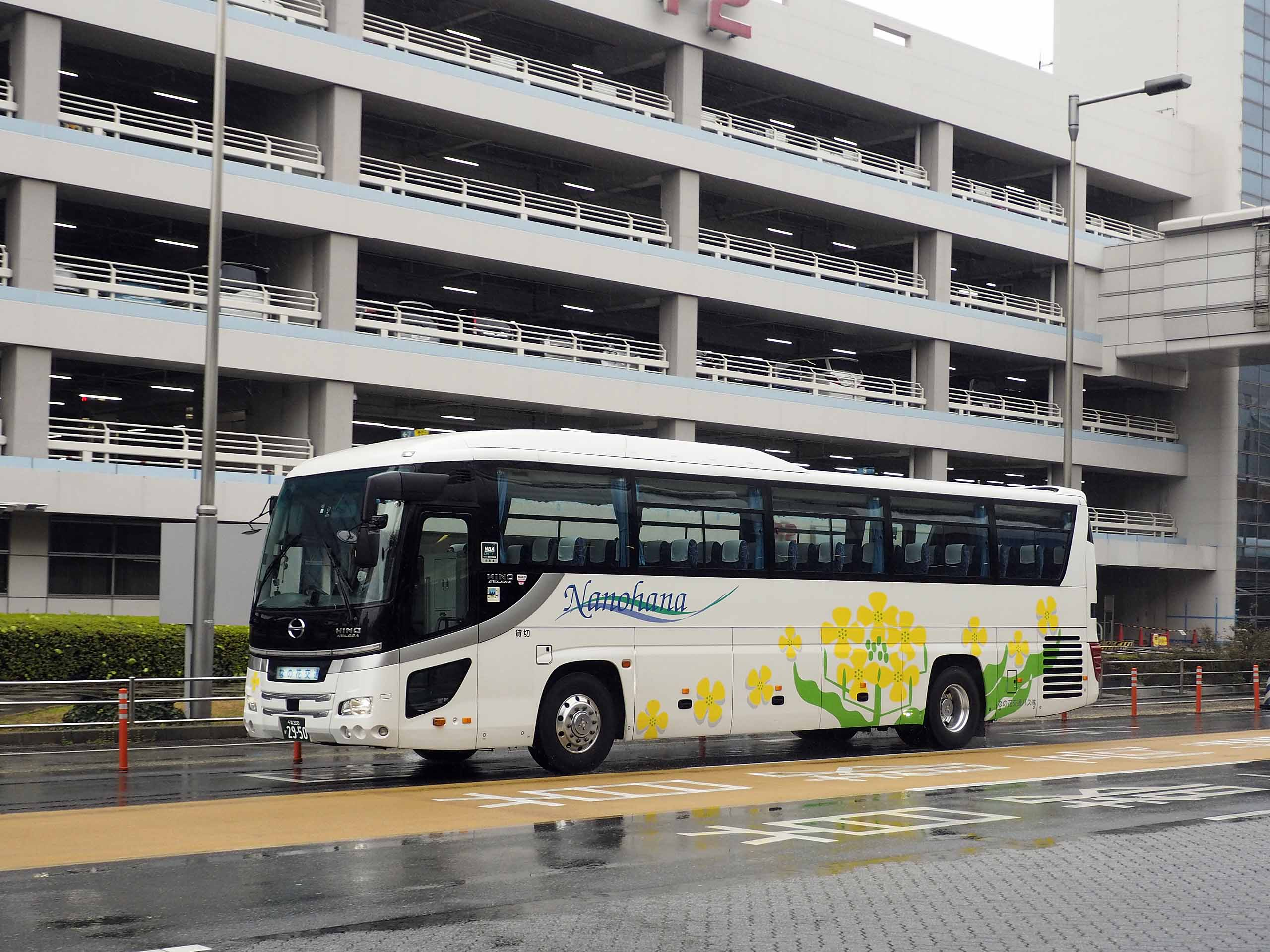 Fleet of Nanohana Kotsu Bus, sightseeing bus operator in Chiba prefecture. Model: Hino Selega HD License plate: CBC200 KA2950 Place: Tokyo International Airport